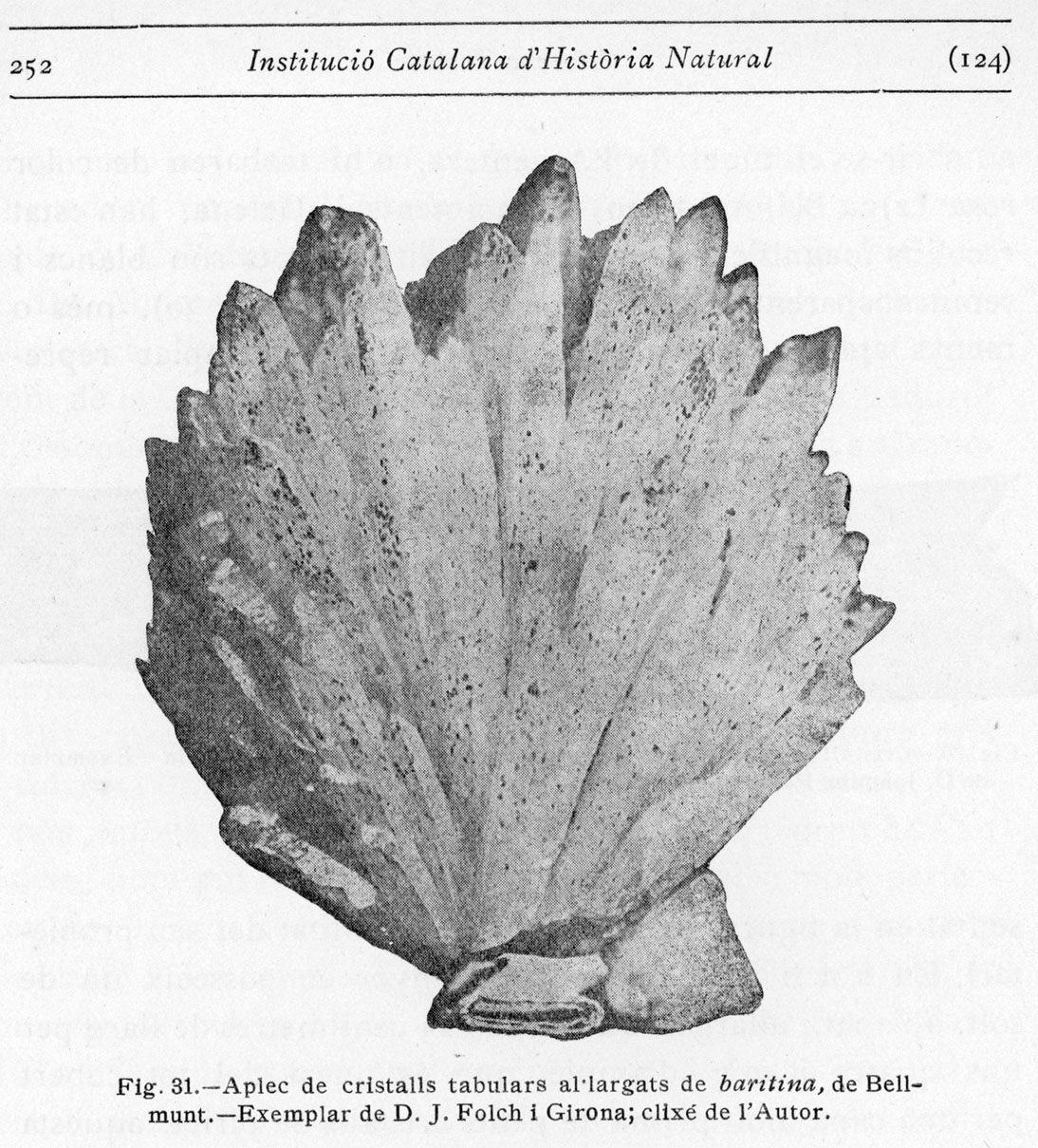 Barite specimen from Folch collection. Photo published en 1920